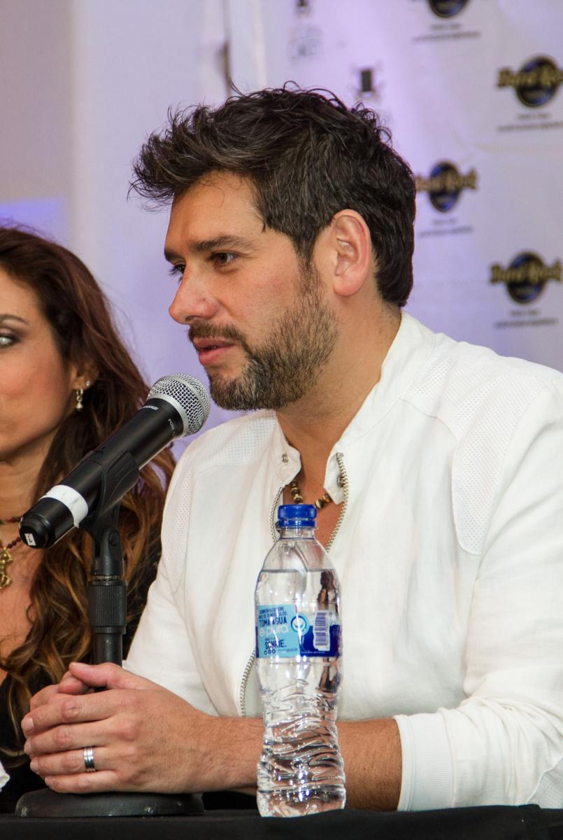 Alan en la conferencia de prensa de su gira "juntos" en 2014.